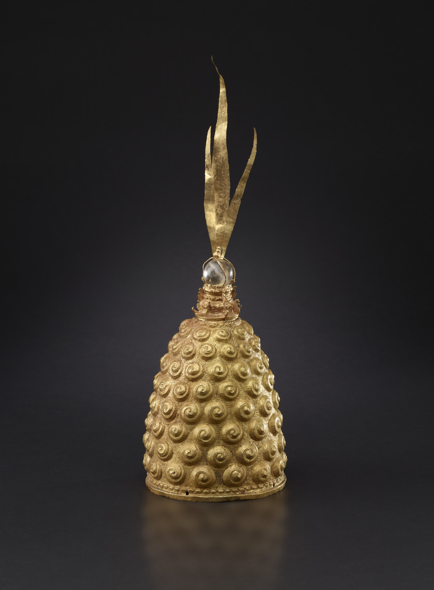 Crown Top or Usnisha Cover late 9th–early 10th century Repoussé gold sheet and gold wire, with crystal finial Made in Java, Indonesia